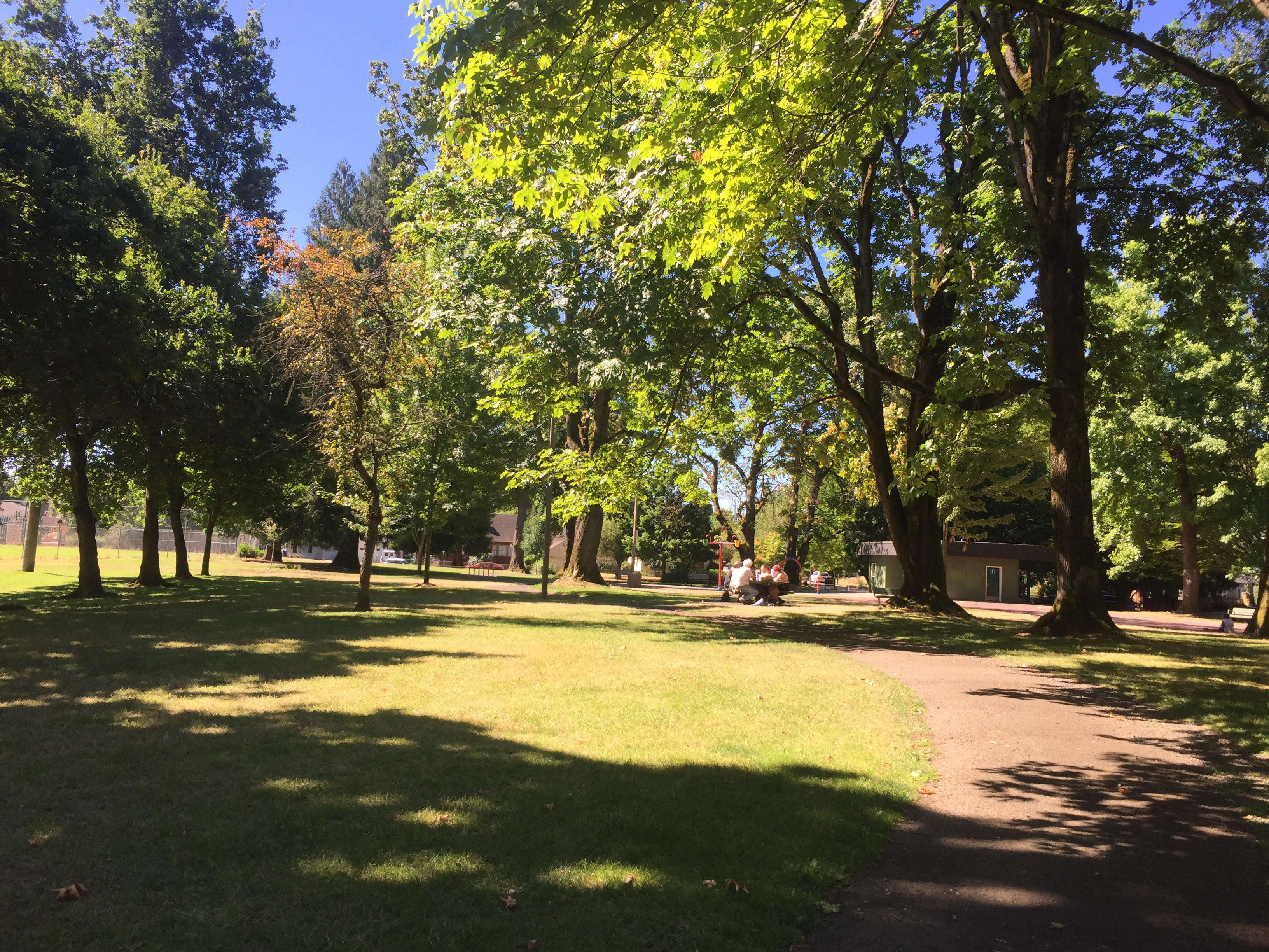 A shady walkway in Farragut Park, Portland, Oregon.